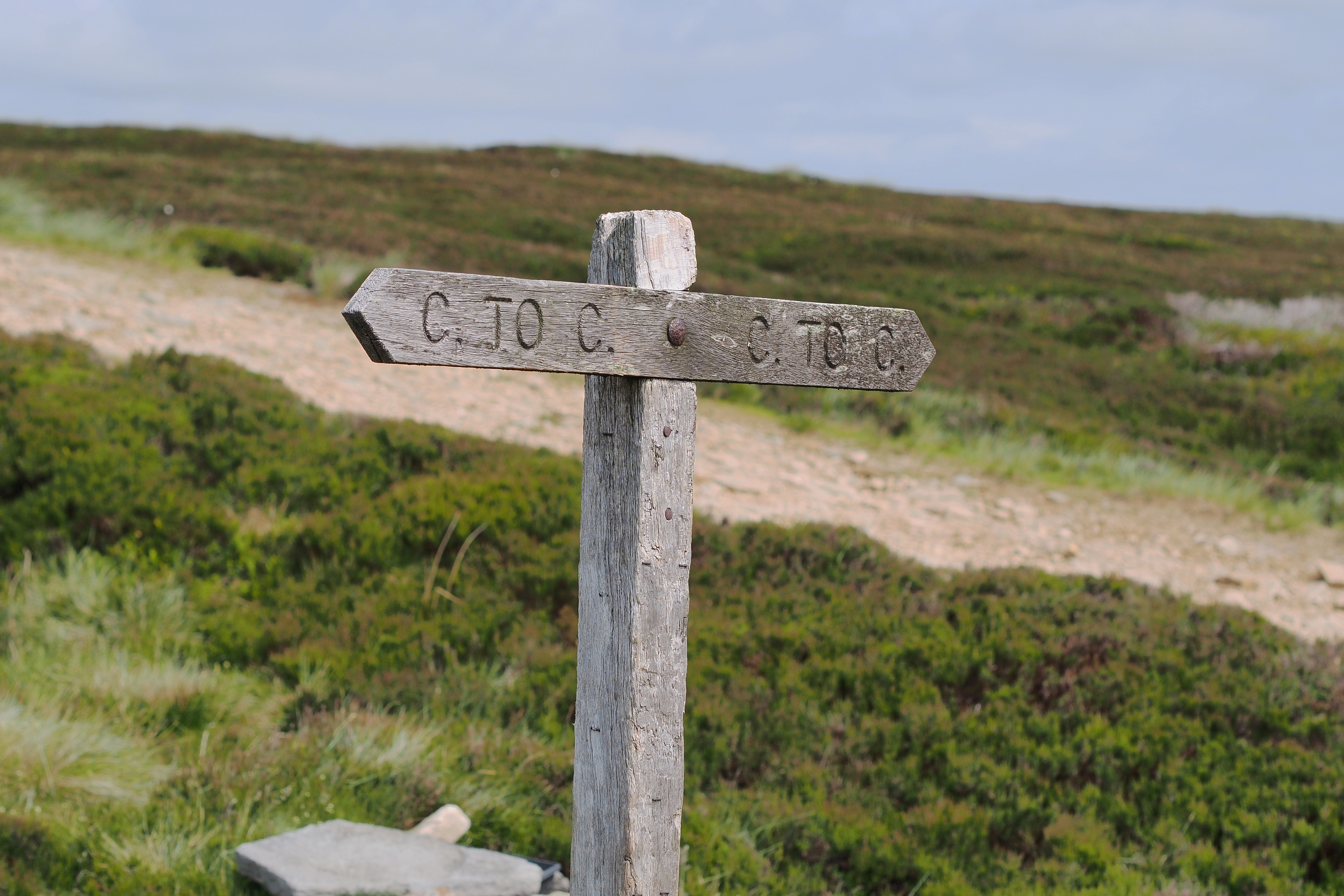 Signpost for the Coast to Coast Walk at Rogan’s Seat – quite a rare thing to see along the 180 miles.